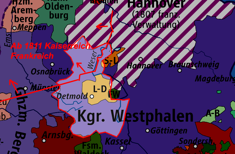 Ostwestfalen-Lippe during french occupation 1807/1811